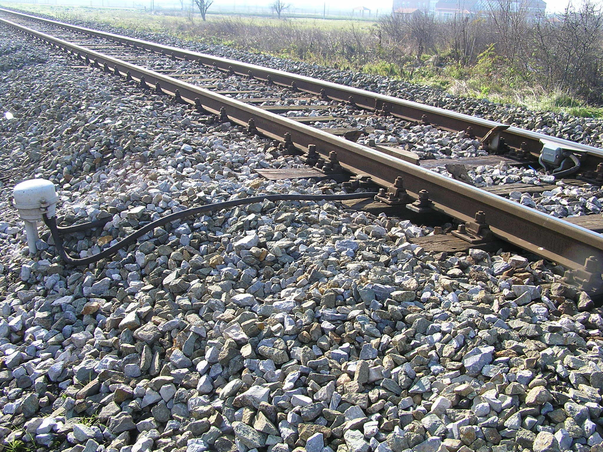 Signal protection device (photo taken in Vinkovci, Croatia)